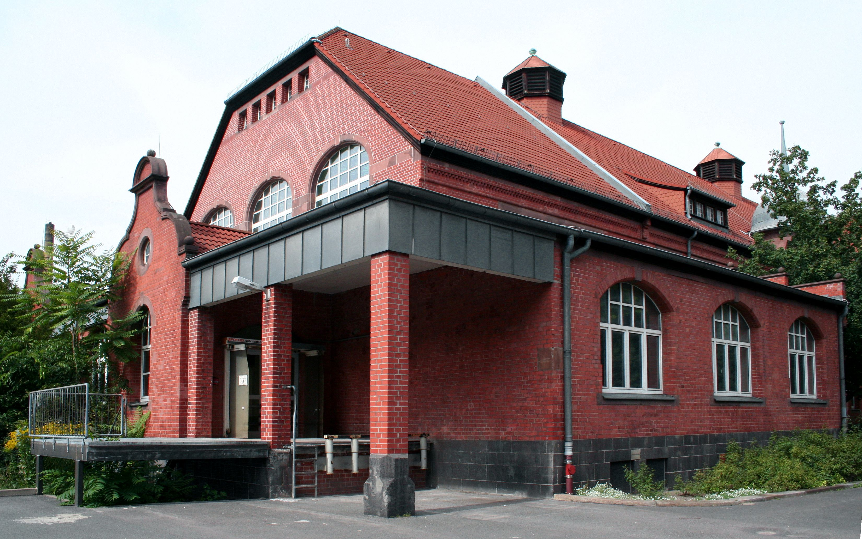 An unused building in the former Hospital in Berlin-Moabit known as "Städtisches Krankenhaus Moabit".